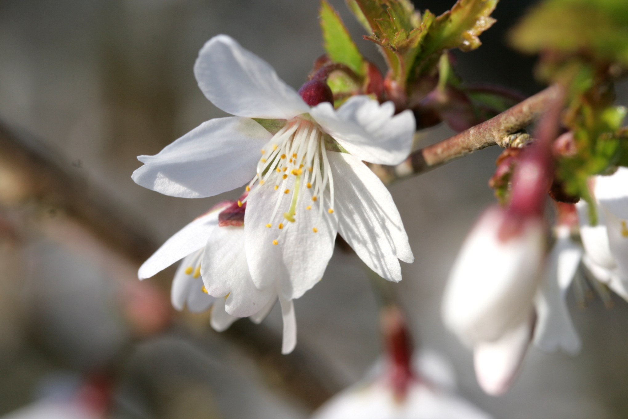 Prunus incisa: Close-up on the flower.